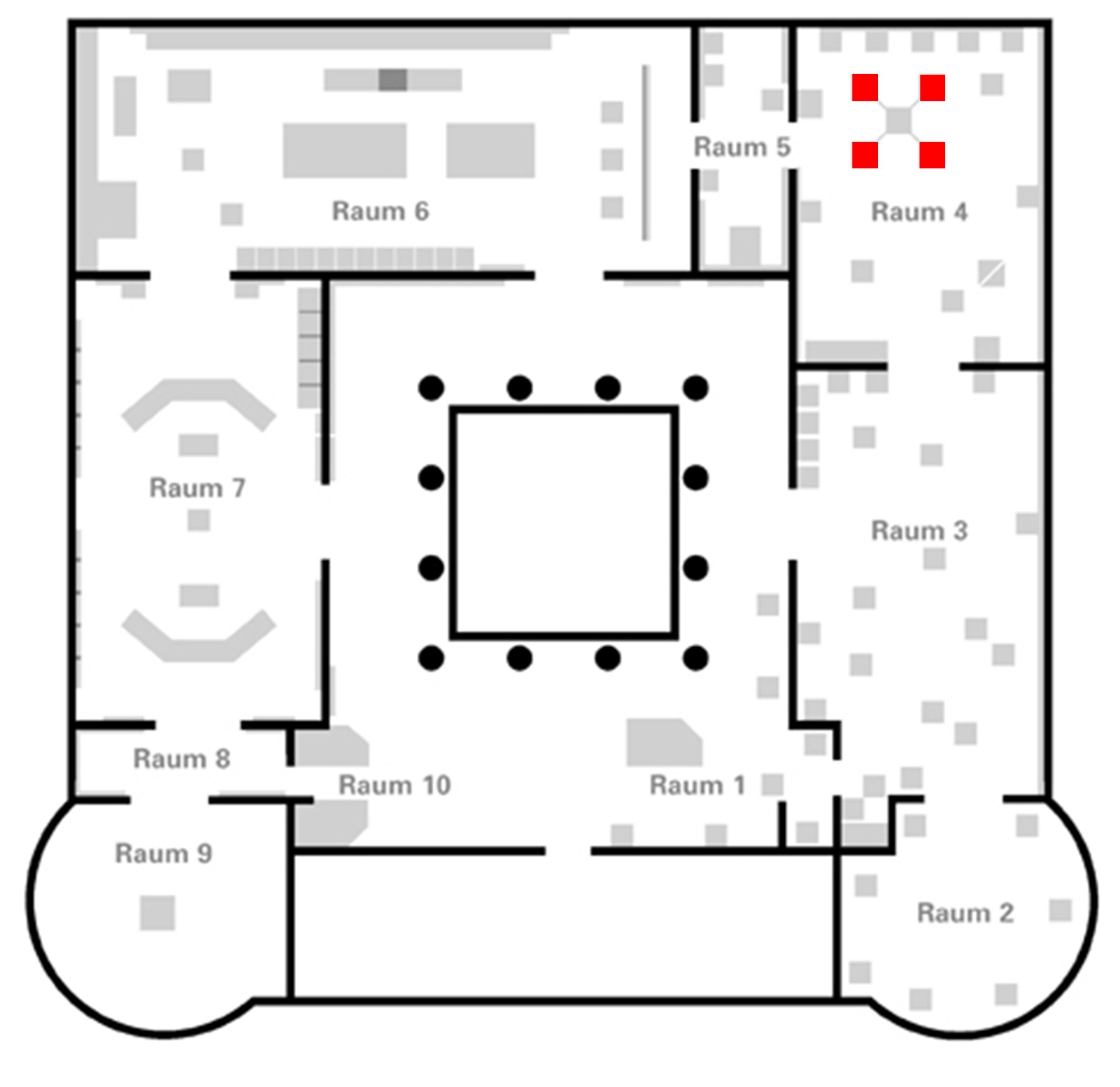 Floor plan of the permanent exhibition in the State Museum of Prehistory Halle (Saxony-Anhalt) with exhibits from the Palaeolithic up to the Early Bronze Age